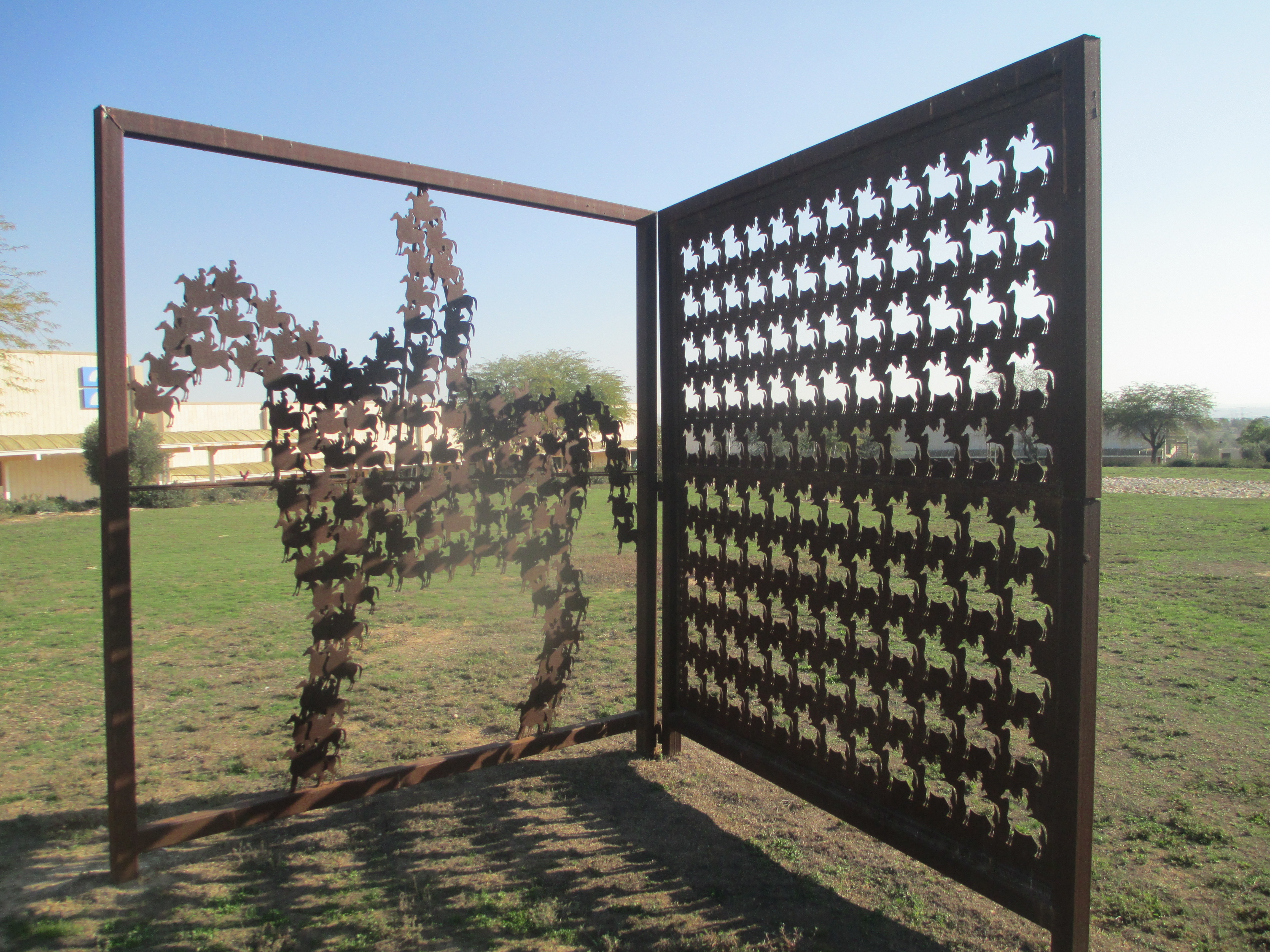 Statue by Ahmed Canaan